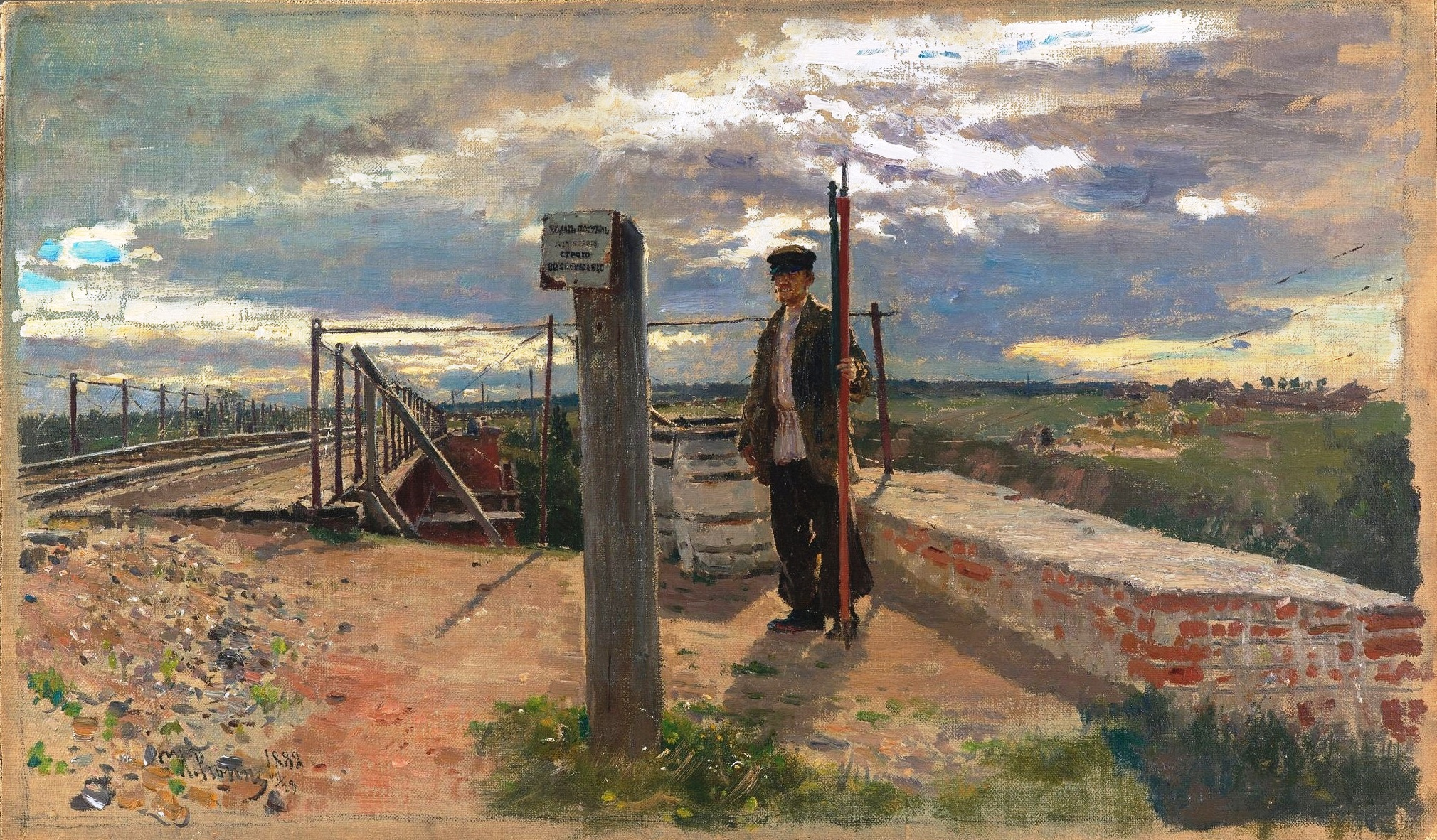 Railway guard. Khotkovo